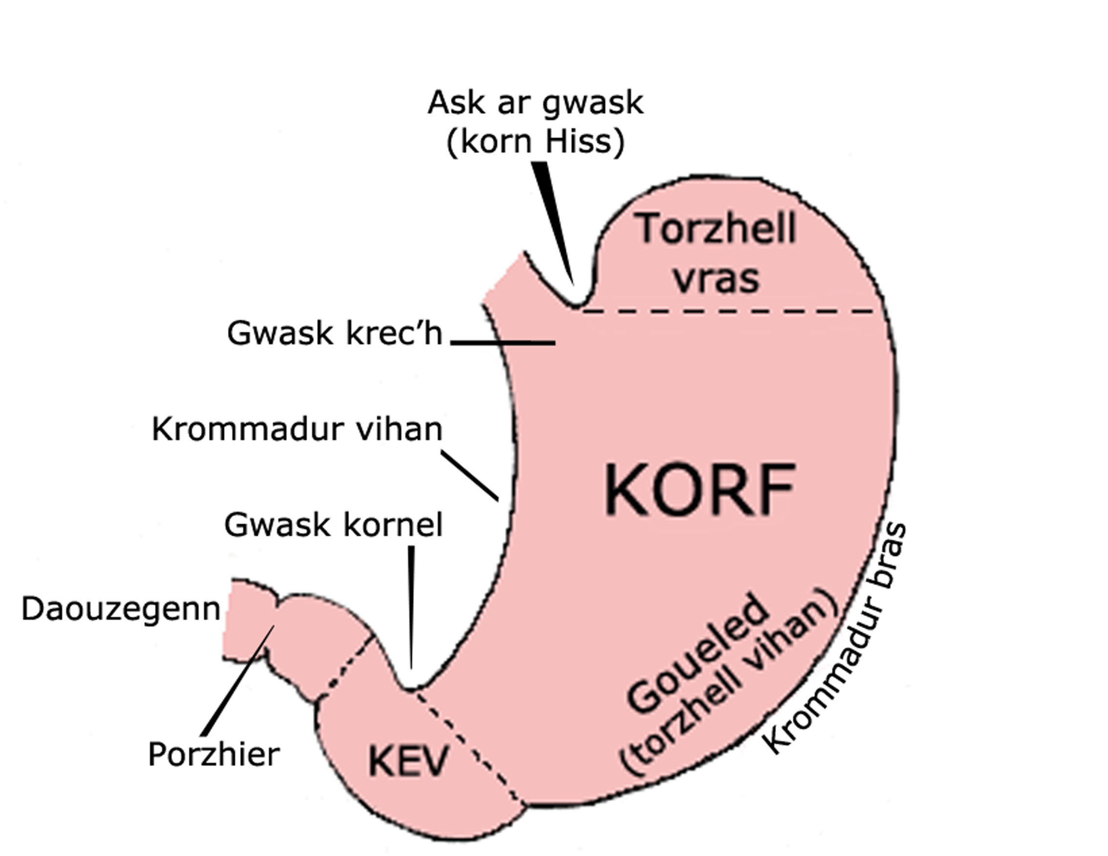 Colored breton version of Gray1046.png